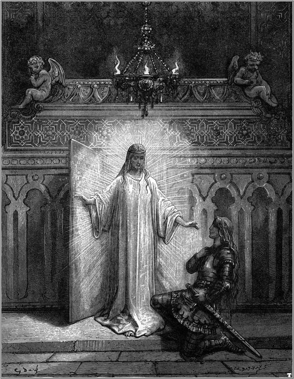 illustration of Ludovico Ariosto’s “Orlando Furioso”.